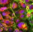 Primary cultures of the human Urothelial